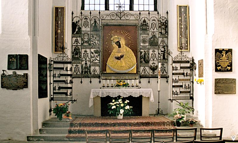 Chapel to Our Lady of Ostra Brama in the St. Mary's Church in Gdańsk.